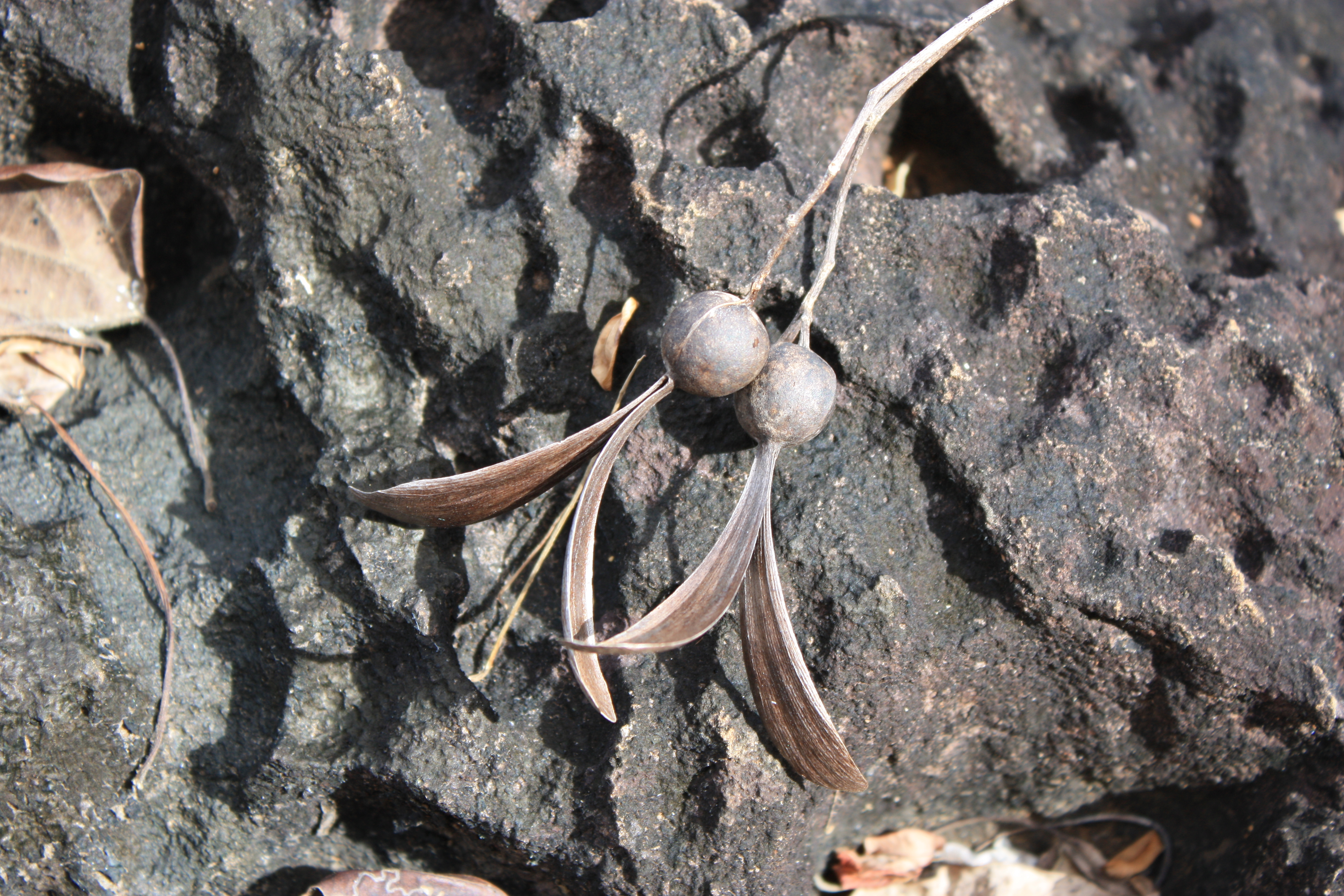 fruits of Gyrocarpus, Tsingys of Ankarana, N Madagascar